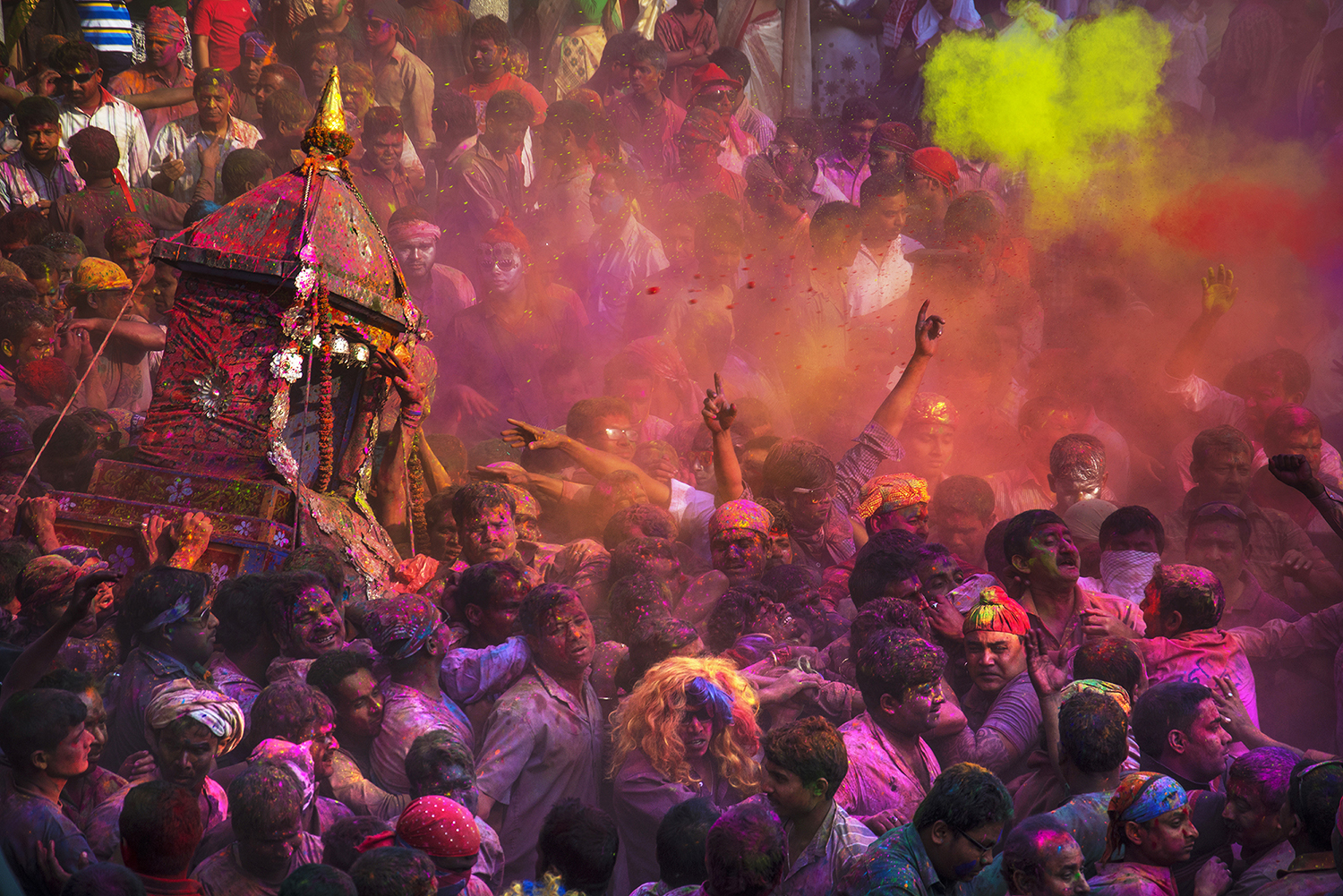 Devotees carry the palanquins of Lord Krishna and Ghunusa towards the main gate of the Satra for their trip to Ganak Kuchi Satra. (HOLI AT BARPETA) assam